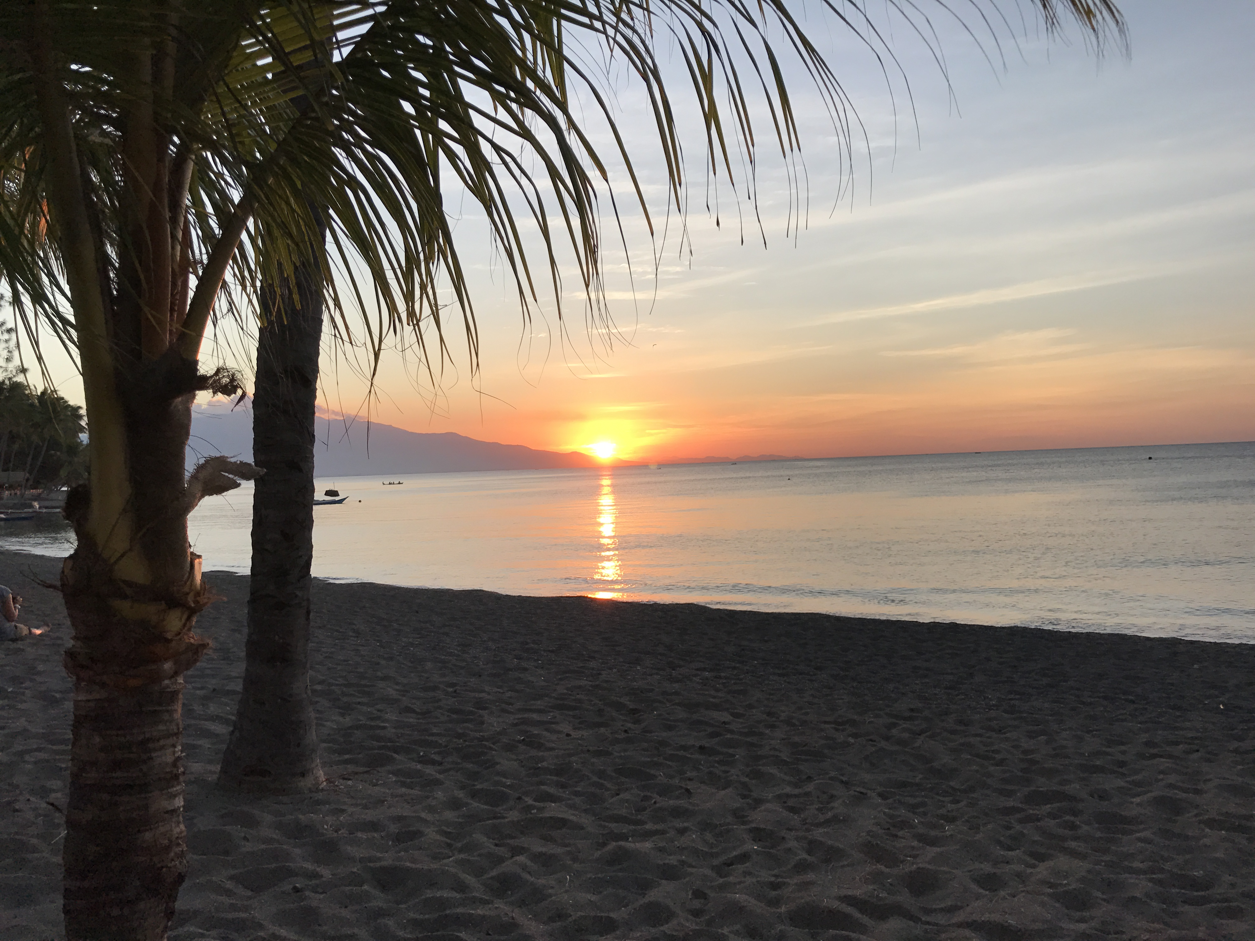 Sunset at peaceful place Maumere beach East Nusa Tenggara Indonesia